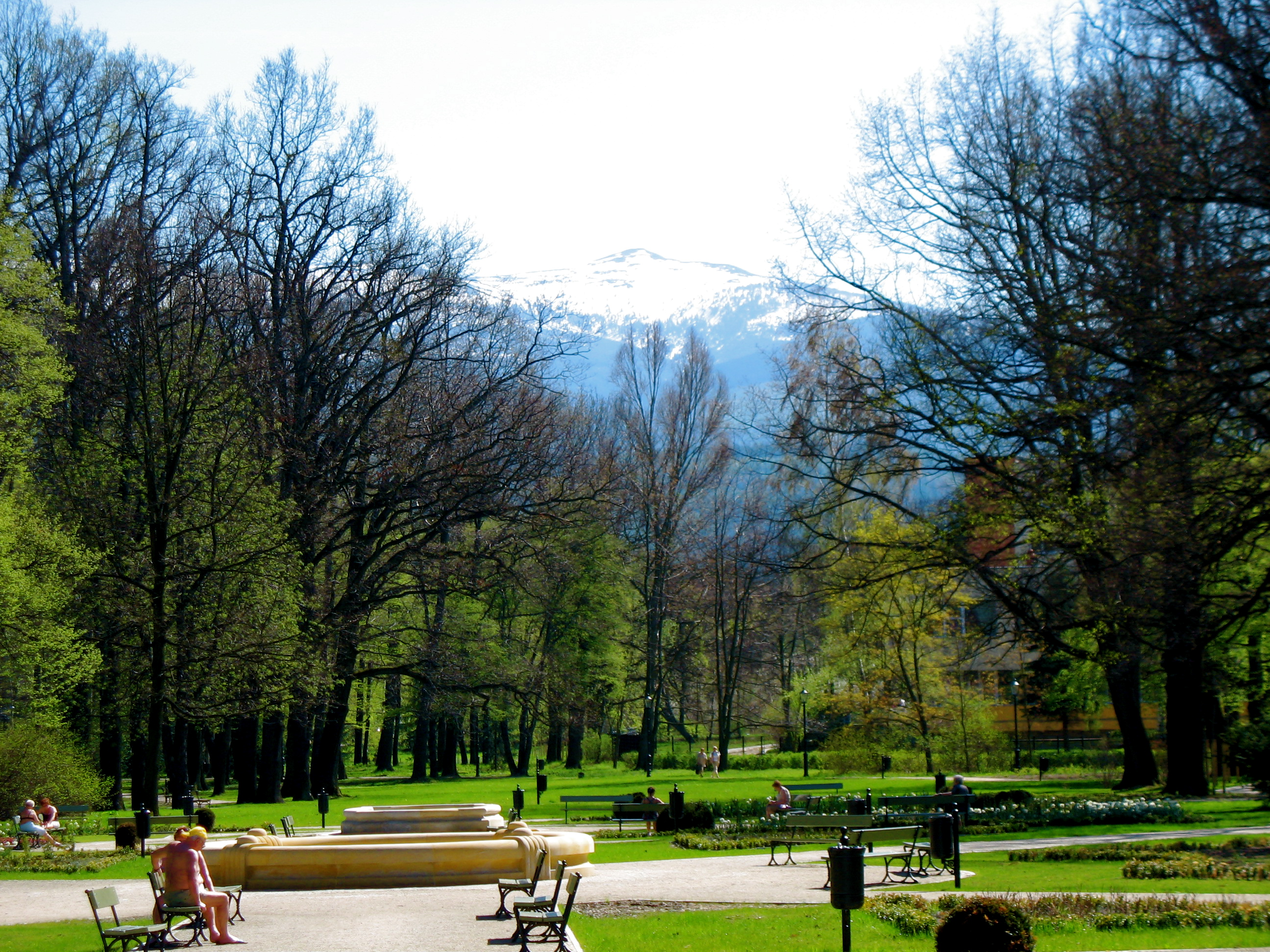 Cieplice Spa Park a view of Śmielec mountain